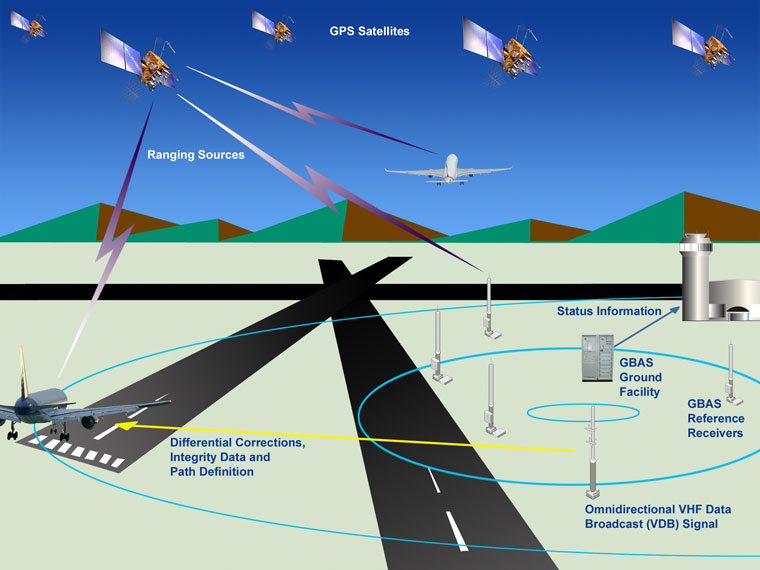 GBAS Architecture